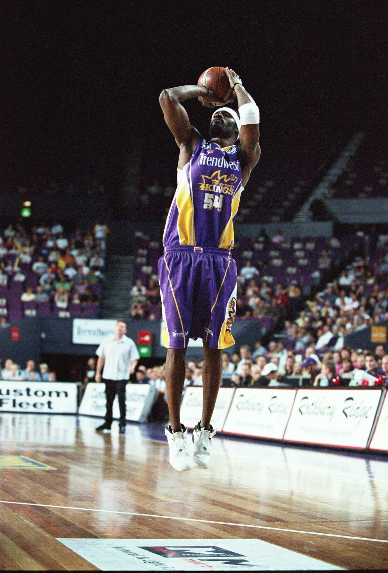 Mark Sanford, the American basketball player.